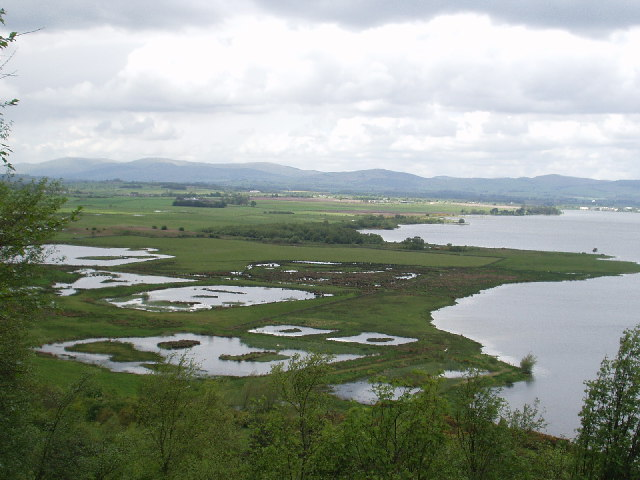 Wet lands near Vane Farm. The wetlands are viewed from Vane Hill